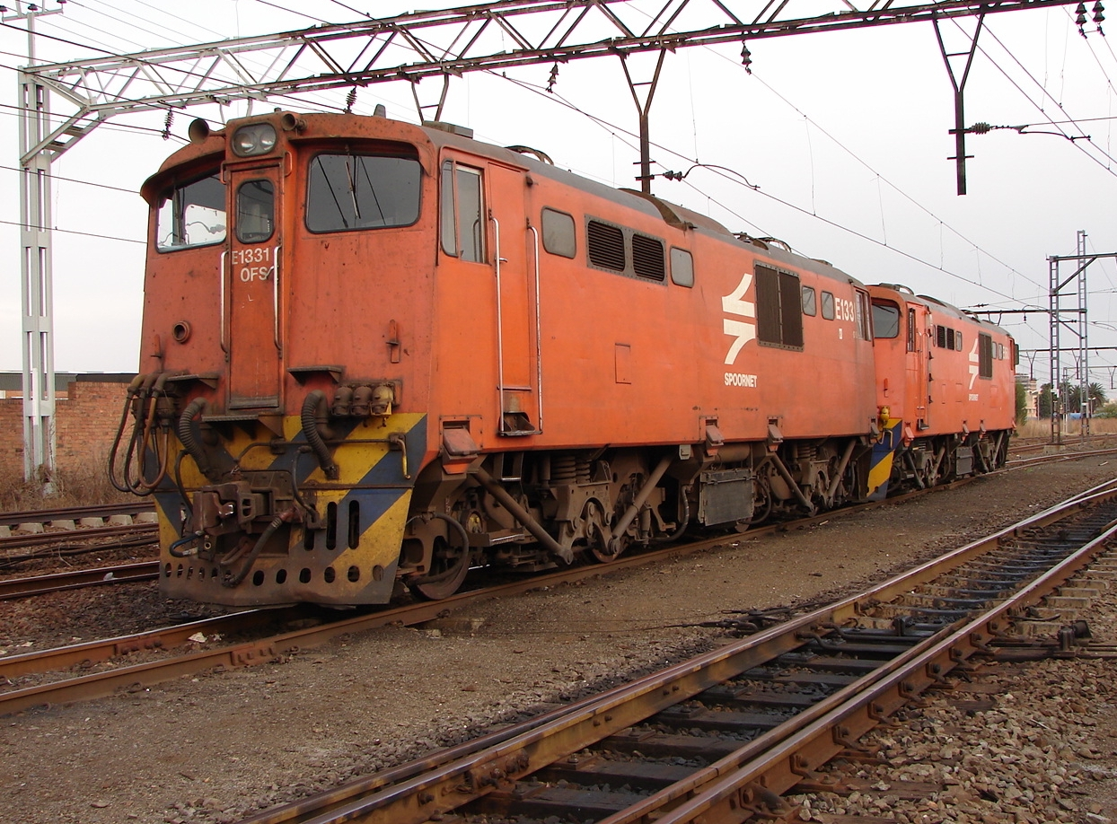 SAR Class 6E1 Series 3 E1331 Location: Springs, Gauteng Rebuilding: In 2013 E1331 was withdrawn from service and rebuilt to Class 18E 18-706